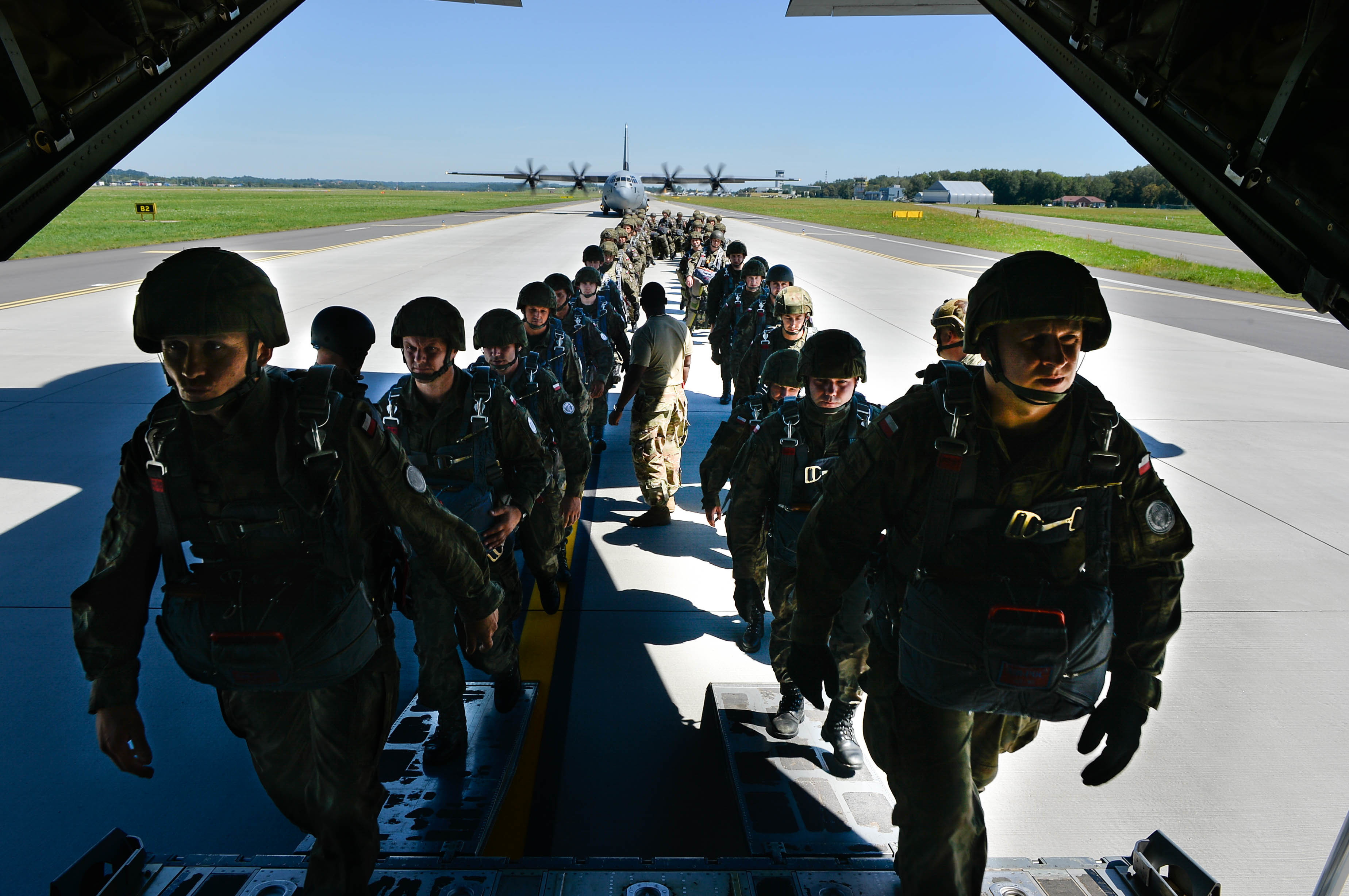 Polish paratroopers board a U.S. Air Force C-130J Super Hercules during Exercise Aviation Rotation 18-4 at Krakow, Poland, Aug. 7, 2018.